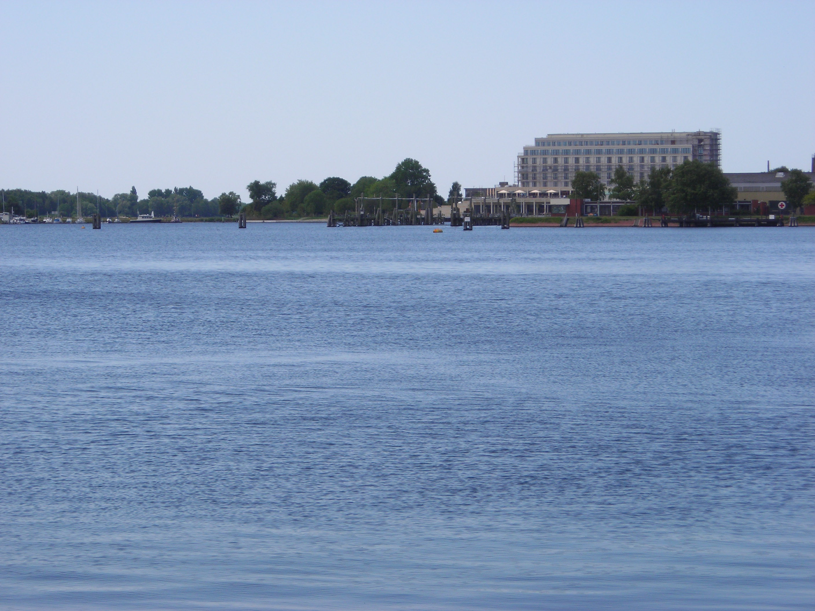 Wilhelmshaven, Großer Hafen, with installations of the naval degaussing station and the Columbia hotel